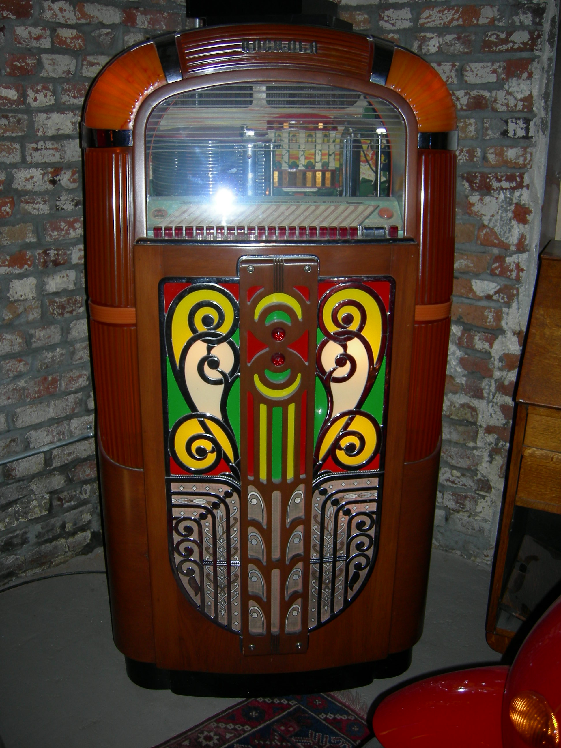 "Rock-Ola" jukebox. Photographed at "The Stables" behind Full Throttle Bottles, Georgetown, Seattle, Washington.